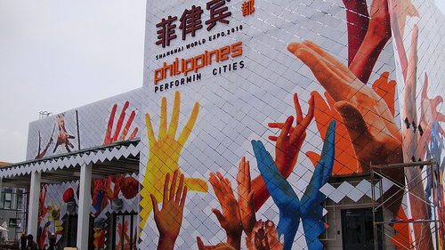 the Philippines pavilion of Shanghai expo2010.